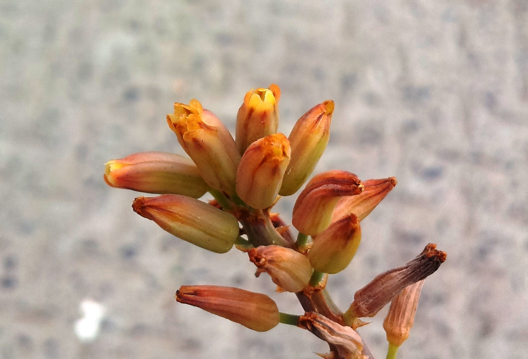 Astroloba bullulata inflorescence - CoCT RSA